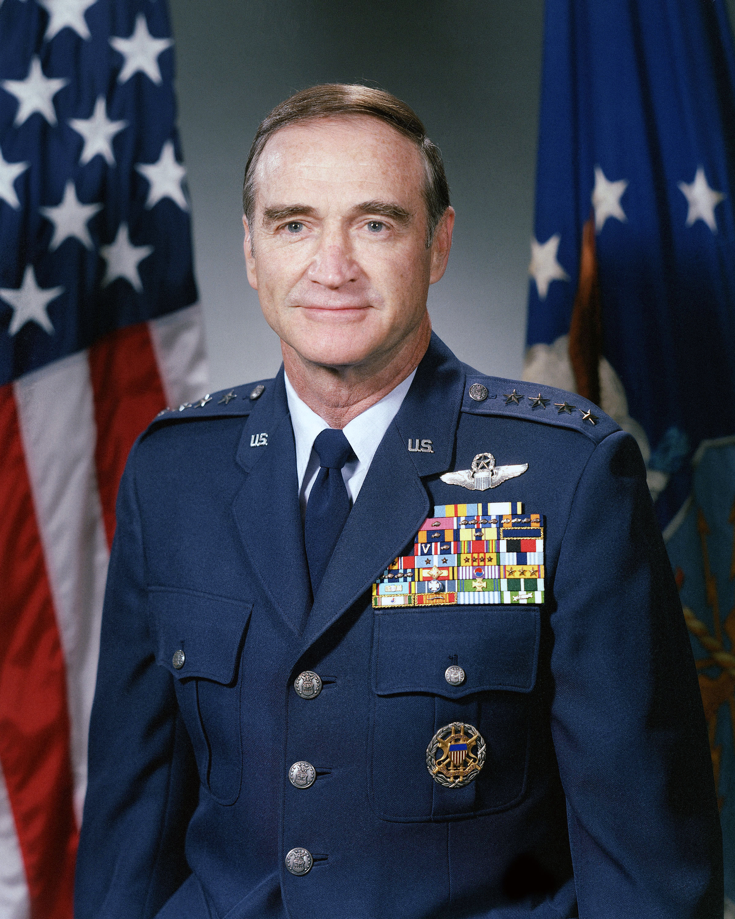 Charles A. Gabriel, the former Chief of Staff of the United States Air Force, in September 1984.